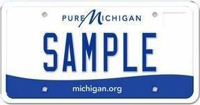 Michigan license plate issued on a default basis starting in 2013.